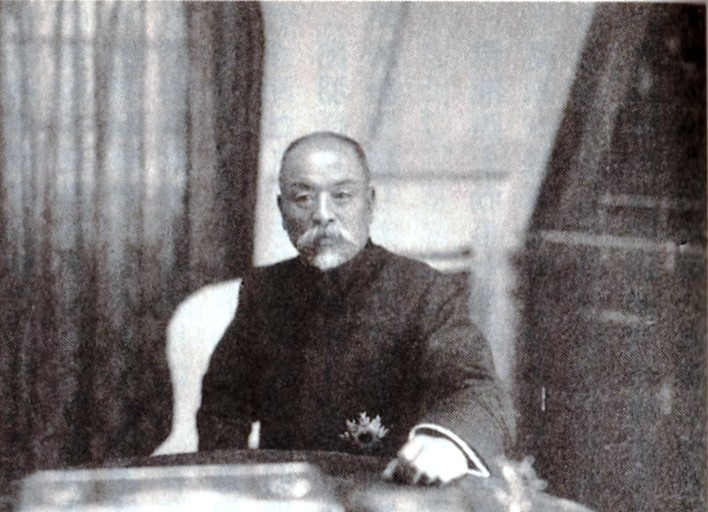 Dewa was inaugurated as The first fleet commander in chief (December 1, 1911)